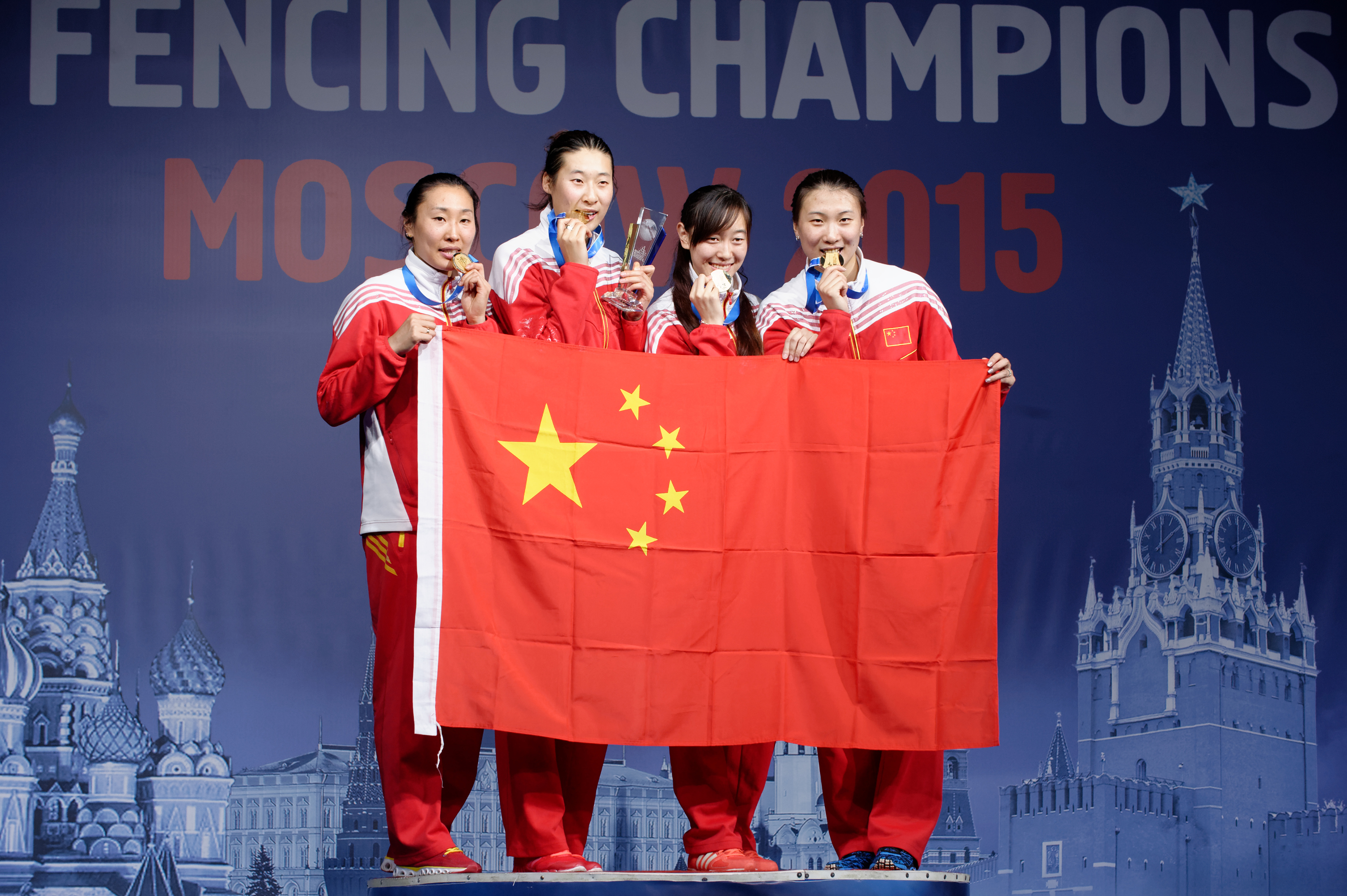 China at the medal ceremony of the women's team épée event of the 2015 World Fencing Championships on 18 July 2014 at the Olympic Stadium in Moscow.